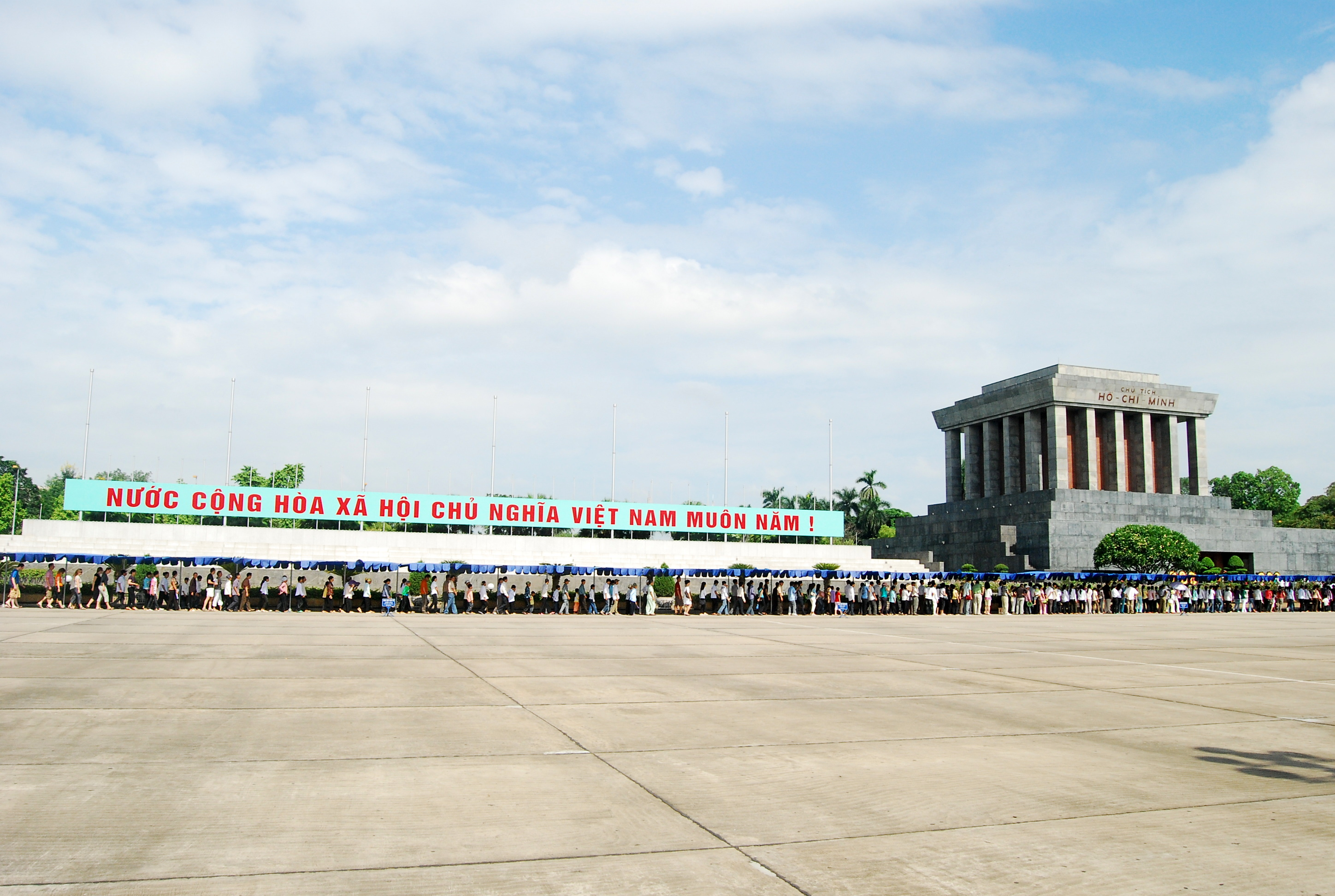 Line-up of visitors into Ho Chi Minh Mausoleum.